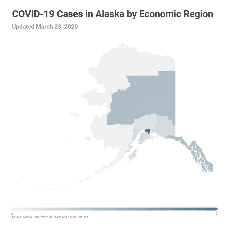 Up-to-date map of confirmed COVID-19 cases in Alaska